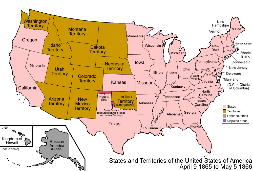 Map of the states and territories of the United States as it was from 1865 to 1866. On April 9 1865, the Confederate States of America surrendered. On May 5 1866, a portion of Utah Territory was given to Nevada.